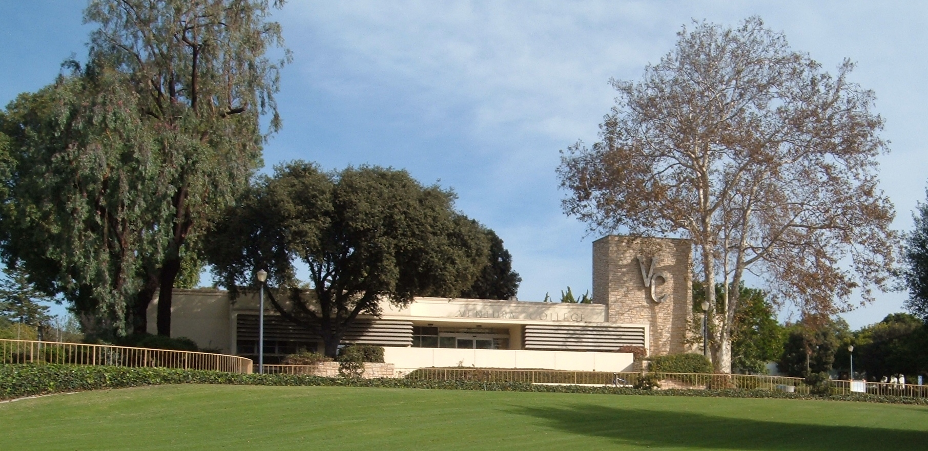 This is a picture of the administration building at Ventura College (Ventura, CA, USA)